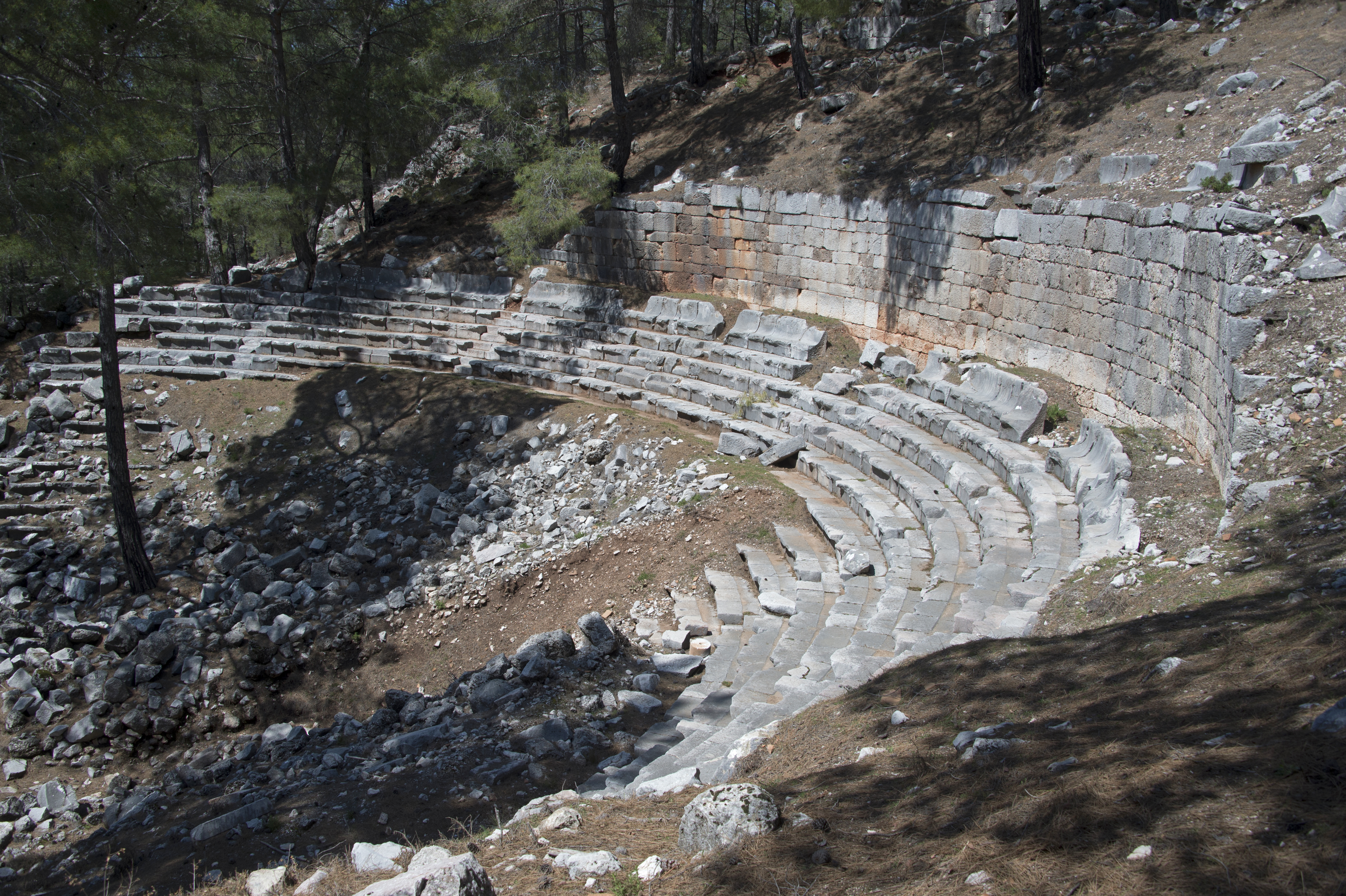 Cadianda’s name was read as “Kadawanti” in the Lycian inscriptions. Because of the suffix “-nd”, it can be said that the history of [the] settlement dates back to 3 thousand BC. However, the oldest remains of the ancient city that have survived on the surface do not go [back] more than [to] the 5th century BC. Part of the ruins of city walls surrounding Cadianda, tombs and some of the inscriptions are the only remains dated to the earliest period. The city is surrounded by walls which were rebuilt many times due to the topography and the steep slopes of the land. The theatre is a high-light for a visit. It used to be heavily overgrown, but has been cleared. It could contain some 5000 people. Only the seating area is well-preserved.